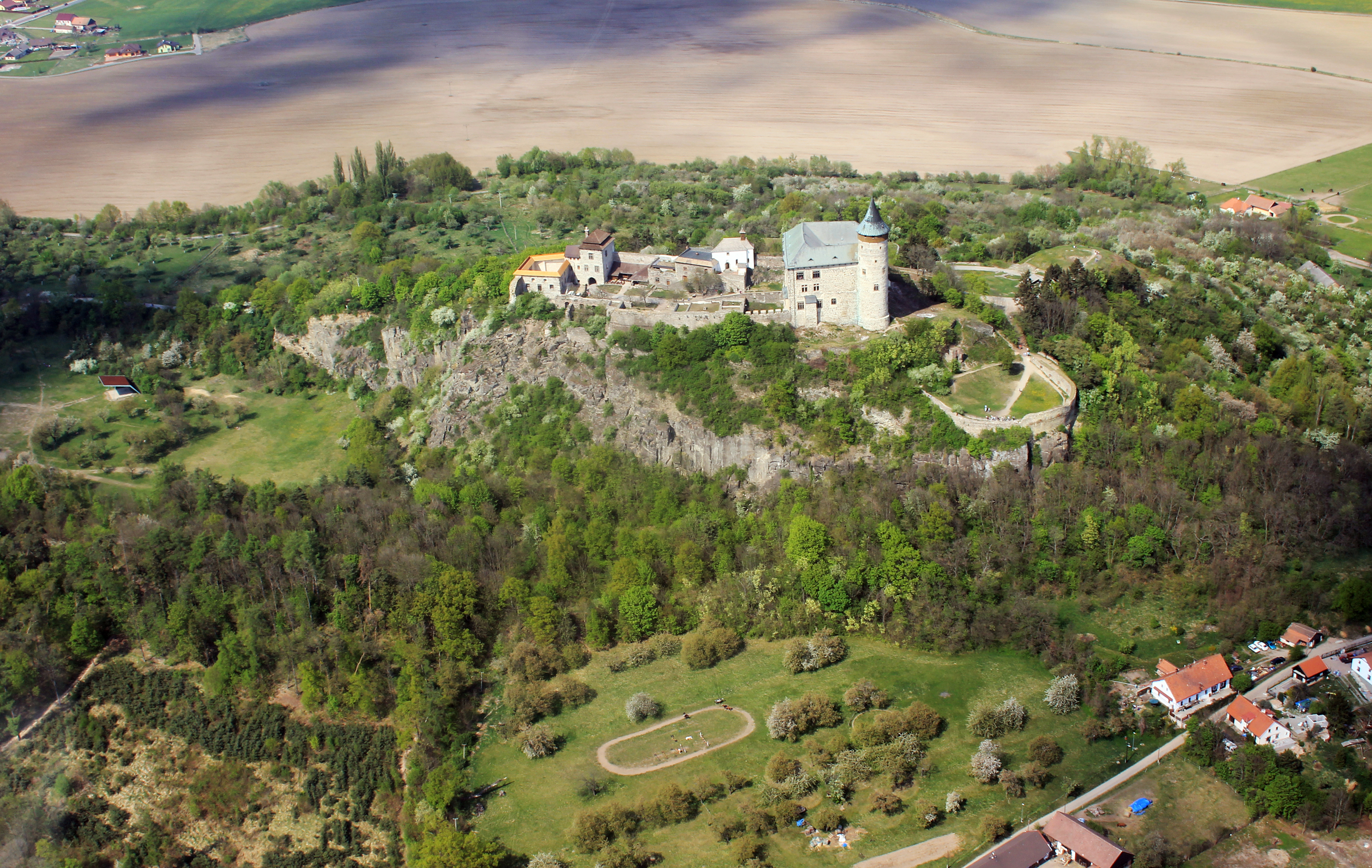 Castle Kunětice Mountain Castle on hill Kunětice Mountain from air, eastern Bohemia, Czech Republic